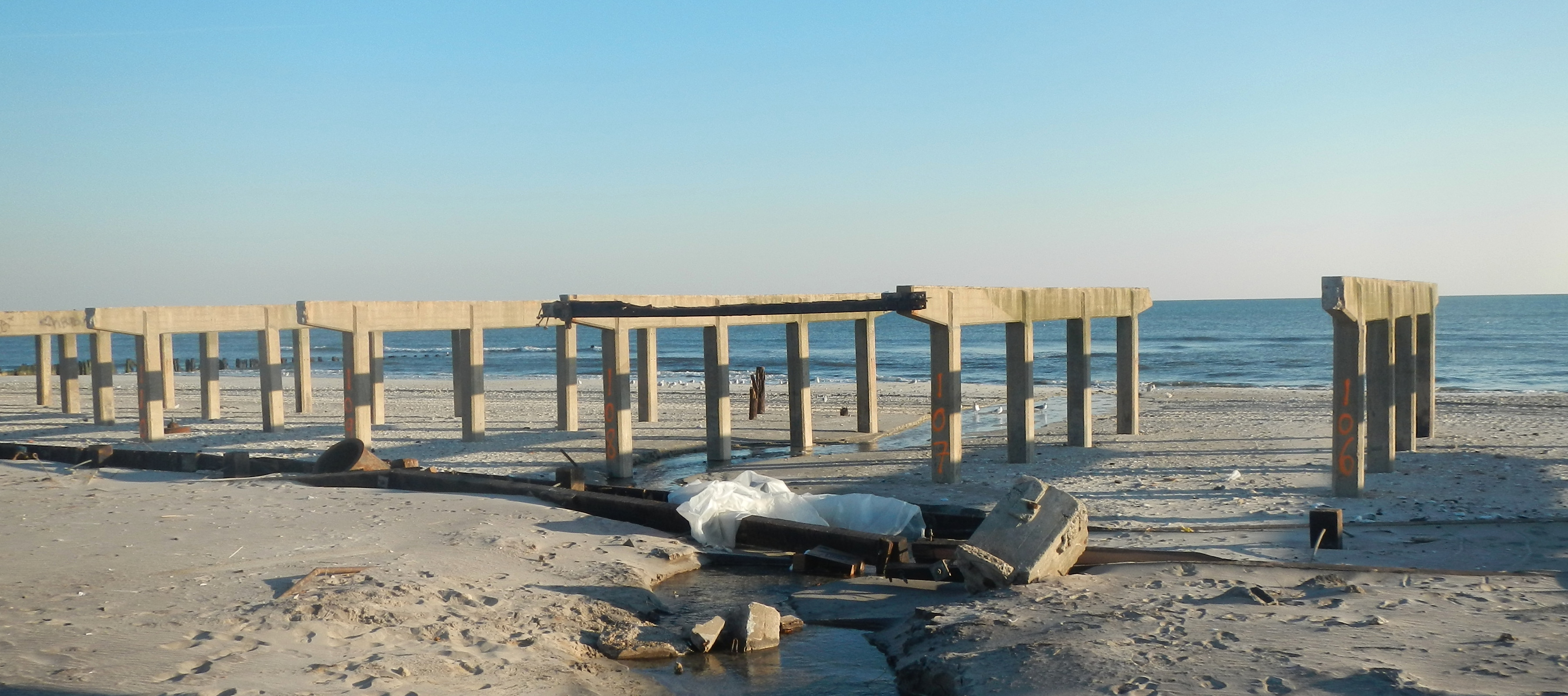 Looking east on a sunny afternoon at boardwalk stripped by Sandy.